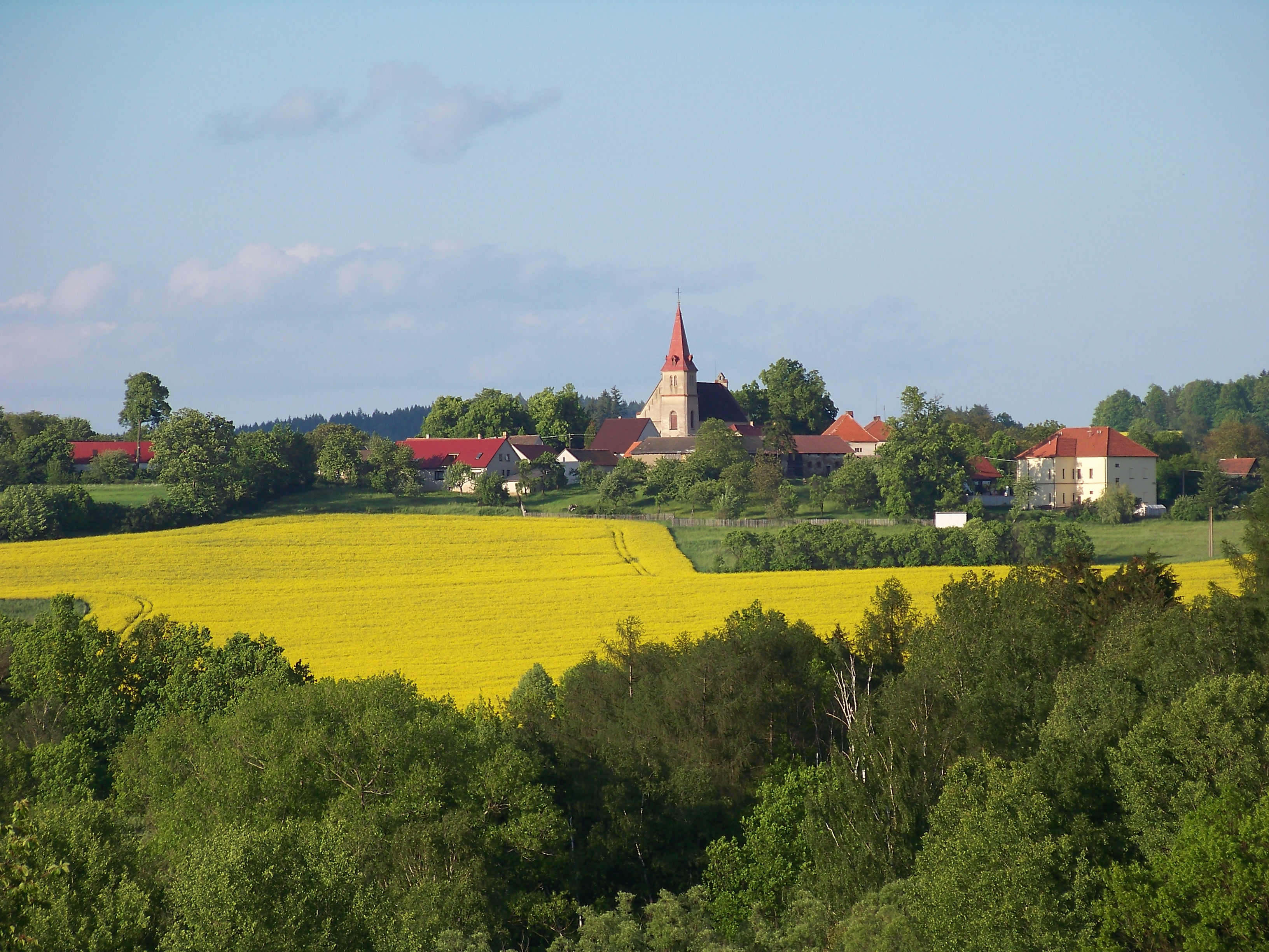 Heřmaničky-Arnoštovice, Benešov District, Central Bohemian Region, the Czech Republic.